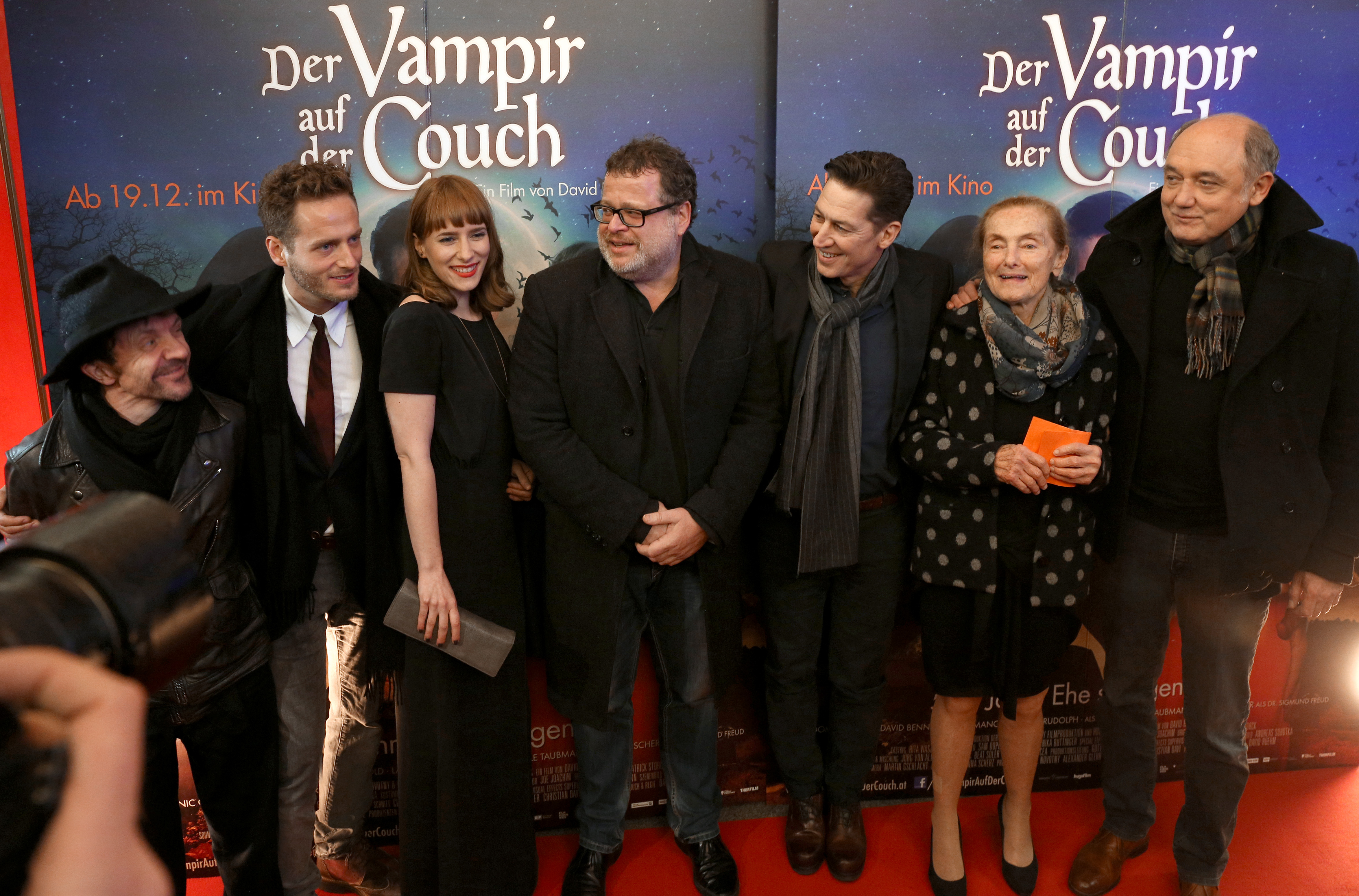 David Bennent, Dominic Oley, Cornelia Ivancan, director David Rühm, Tobias Moretti, Erni Mangold and Karl Fischer (l.t.r.) at the premiere of the movie Therapy for a Vampire at Gartenbaukino in Vienna, Austria.